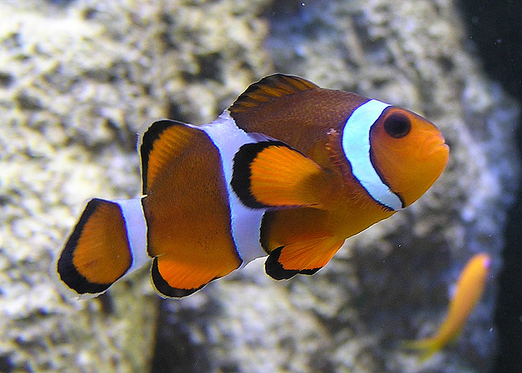 Clown Fish at Bristol Zoo Aquarium, Bristol, England. Taken by Adrian Pingstone in September 2004 and released to the public domain.